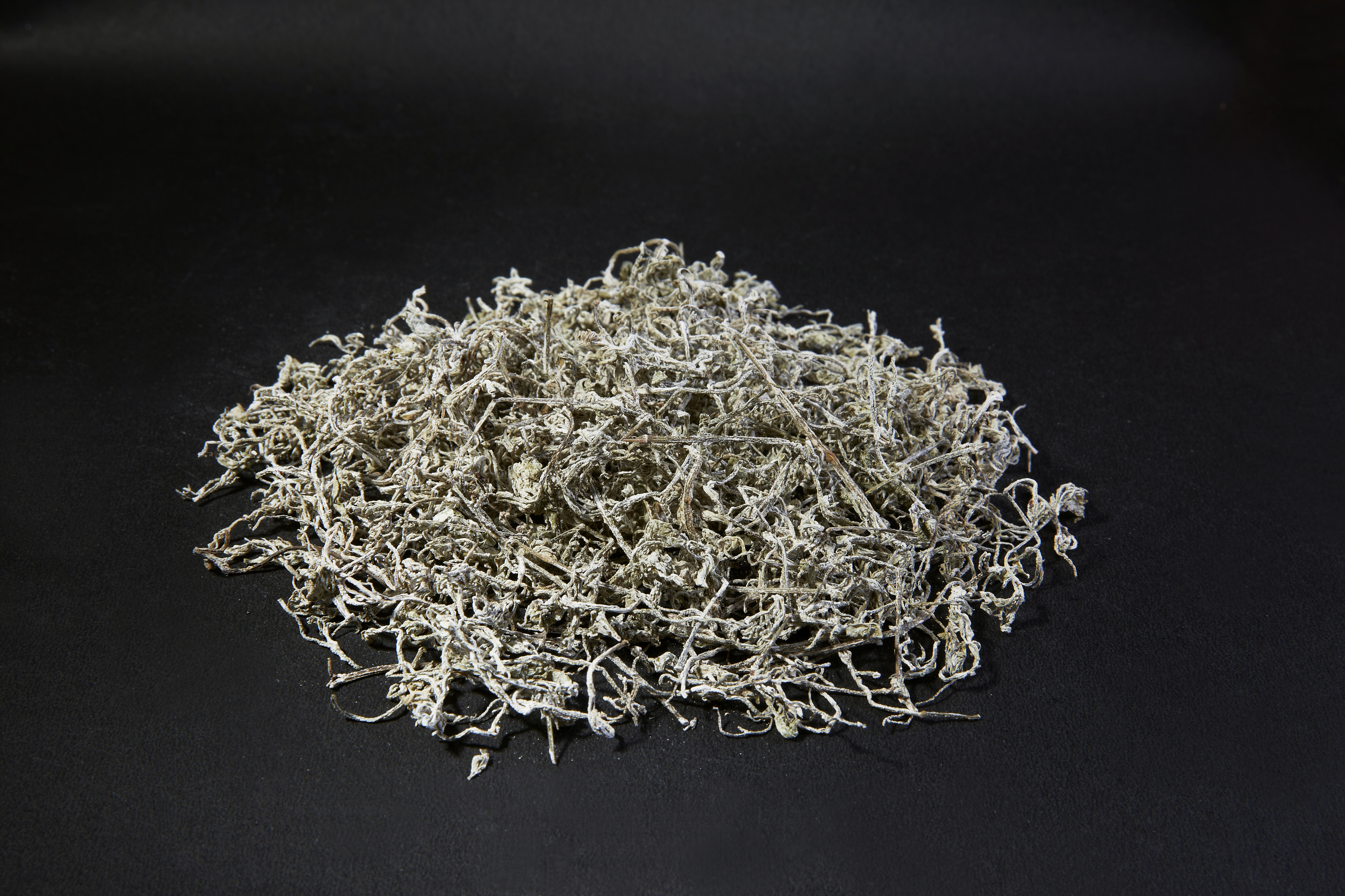 Moyeam's Product